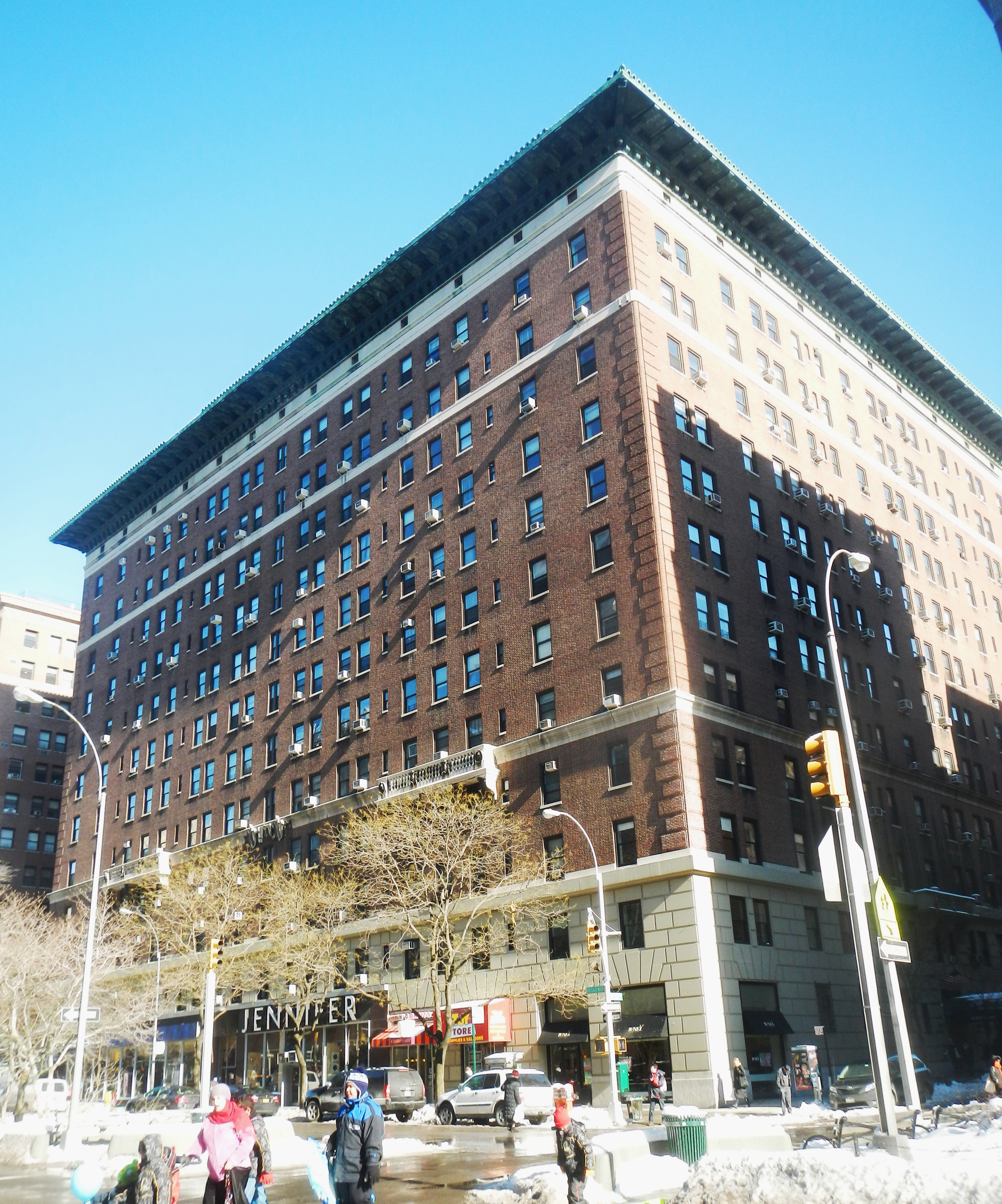 Looking east across 89th Street and Broadway on a sunny early afternoon after snow.